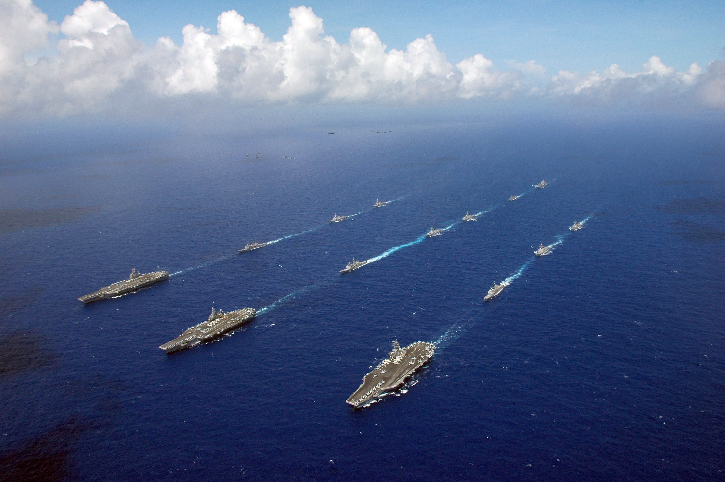 Philippine Sea (June 18, 2006) - The Kitty Hawk, Ronald Reagan and Abraham Lincoln Carrier Strike groups sail in formation, as Air Force, Navy and Marine Corps aircraft fly overhead during the photo portion of Exercise Valiant Shield 2006. Valiant Shield focuses on integrated joint training among U.S. military forces, enabling real-world proficiency in sustaining joint forces and in detecting, locating, tracking and engaging units at sea, in the air, on land and cyberspace in response to a range of mission areas. U.S. Navy photo by Chief Photographer's Mate Todd P. Cichonowicz (RELEASED)